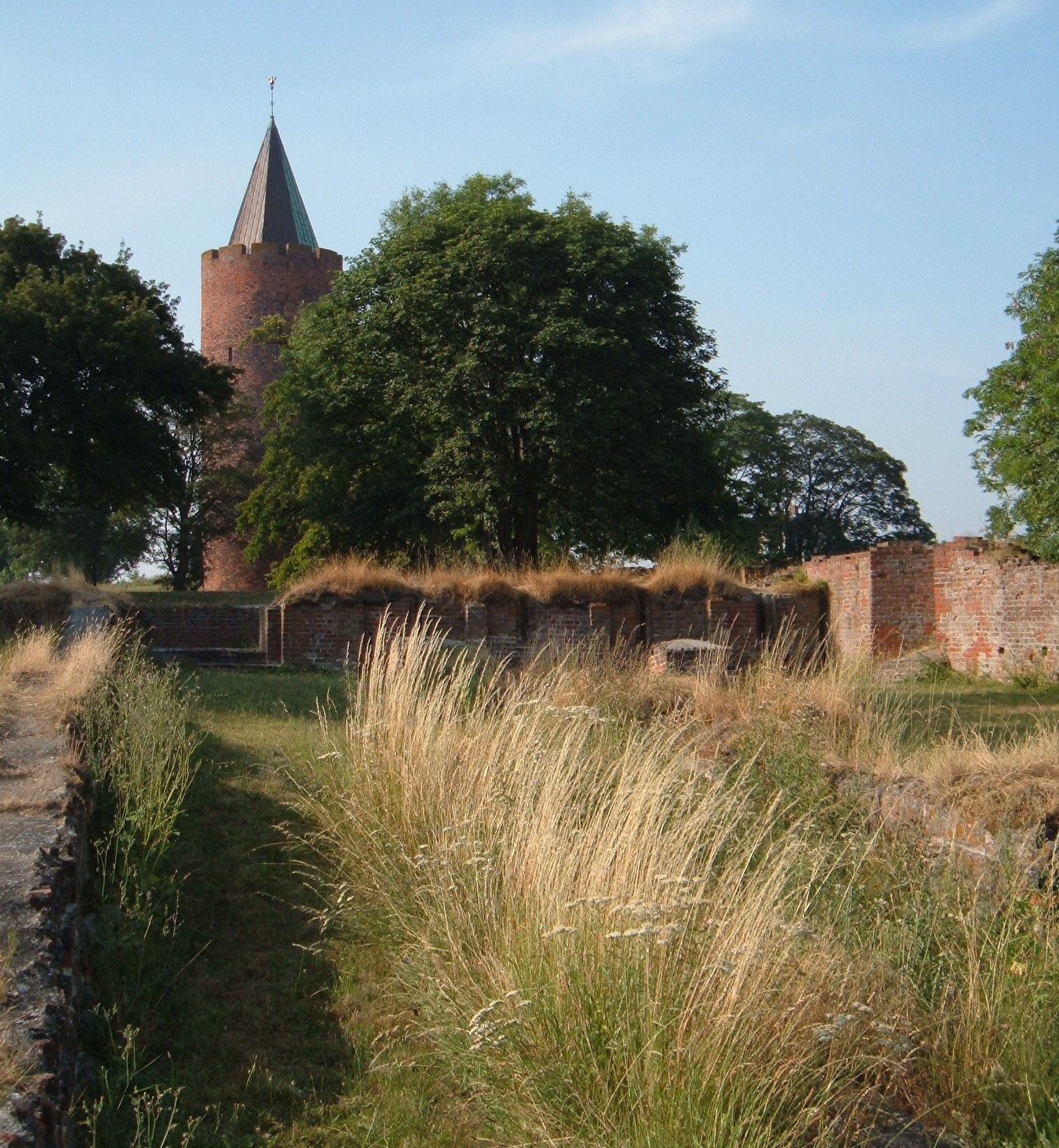 Ruins of part of Vordingborg castle, Zealand, Denmark.